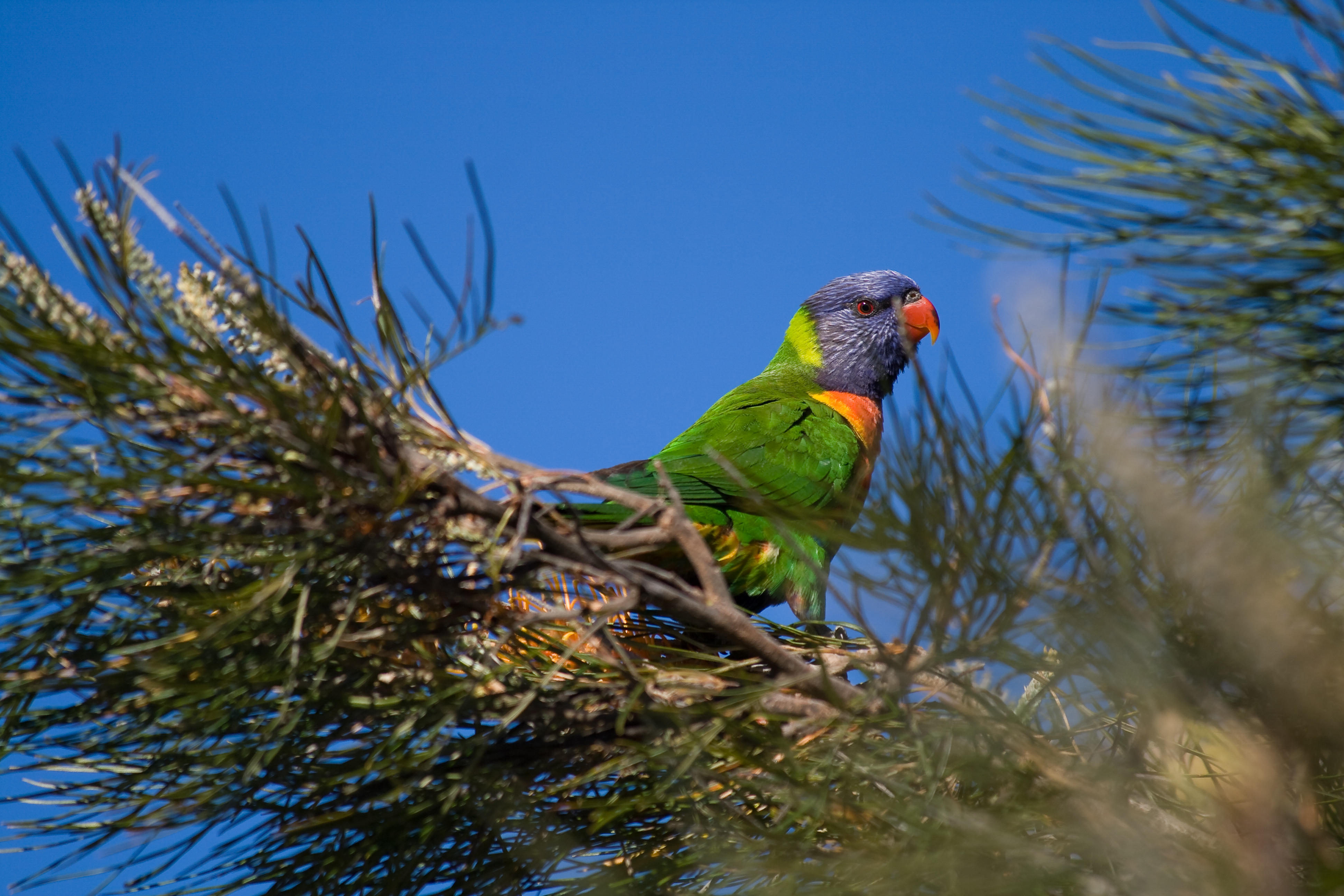 Rainbow Lorikeet Trichoglossus moluccanus in Brisbane, Australia